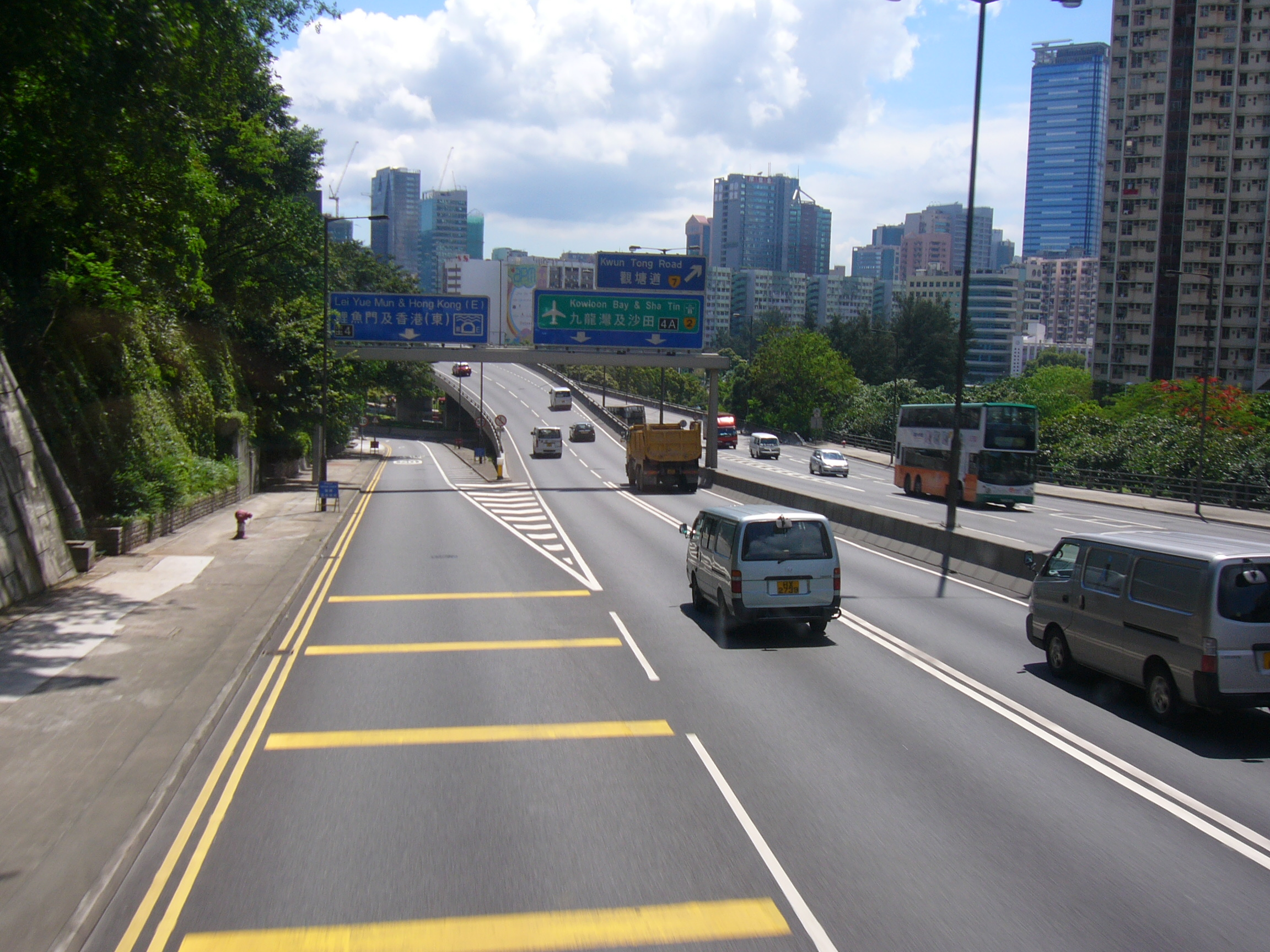 Tseung Kwan O Road, Sau Mau Ping side, southbound